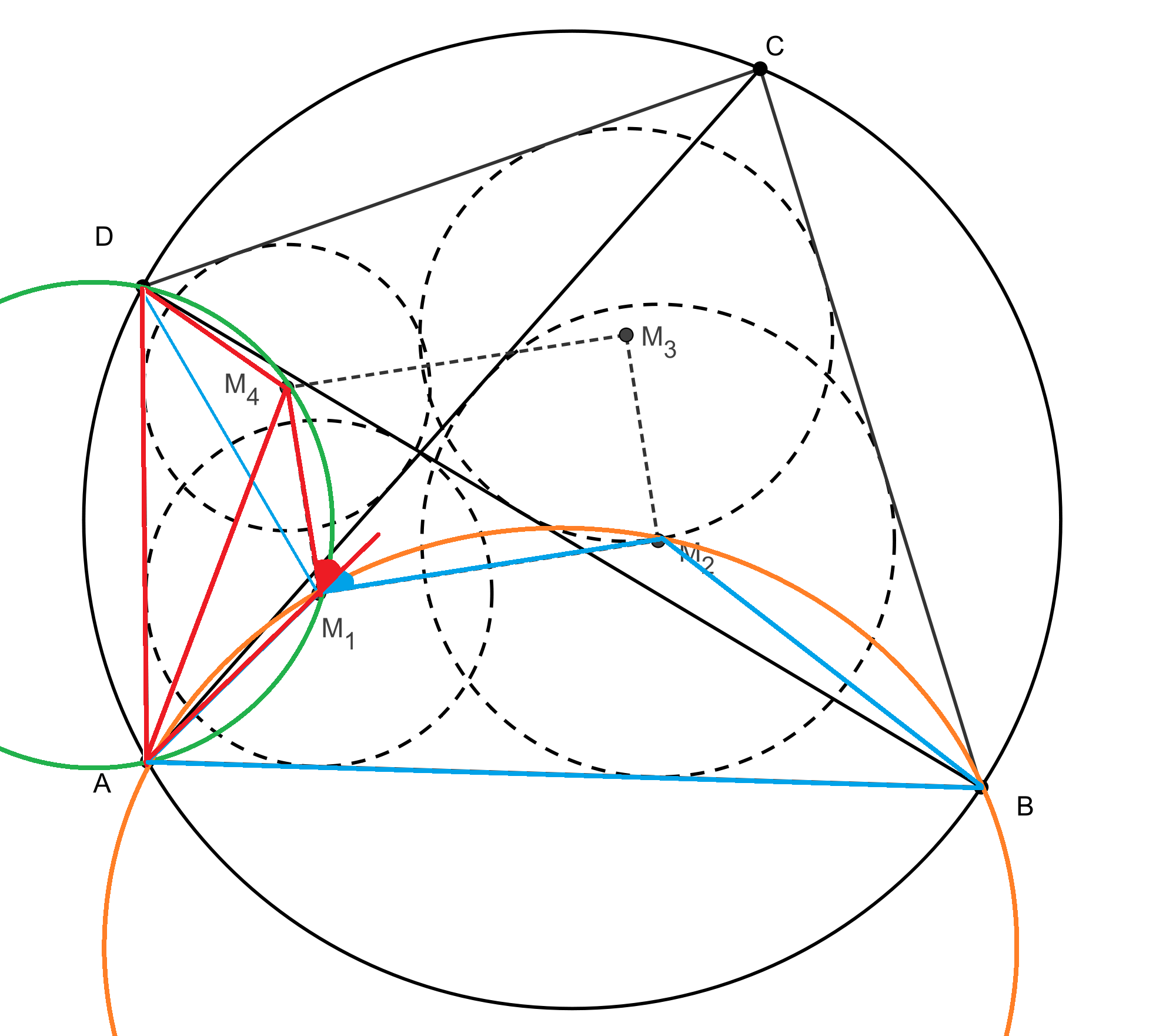 The describe the Proof of Japanese theorem for cyclic quadrilaterals